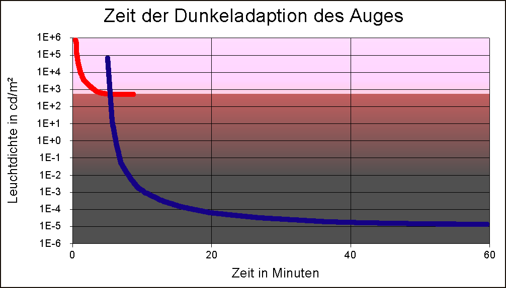 Time dependence off eye adaption to darkness for cone cells (red) and rod cells (blue)